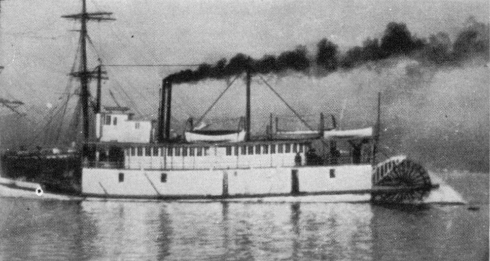 Steamer Tyconda